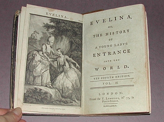 cover of volume 2 of evelina by Frances Burney